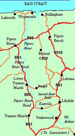 Drawn map. Representation of roads and localities in the Pipers River-Lilydale area.